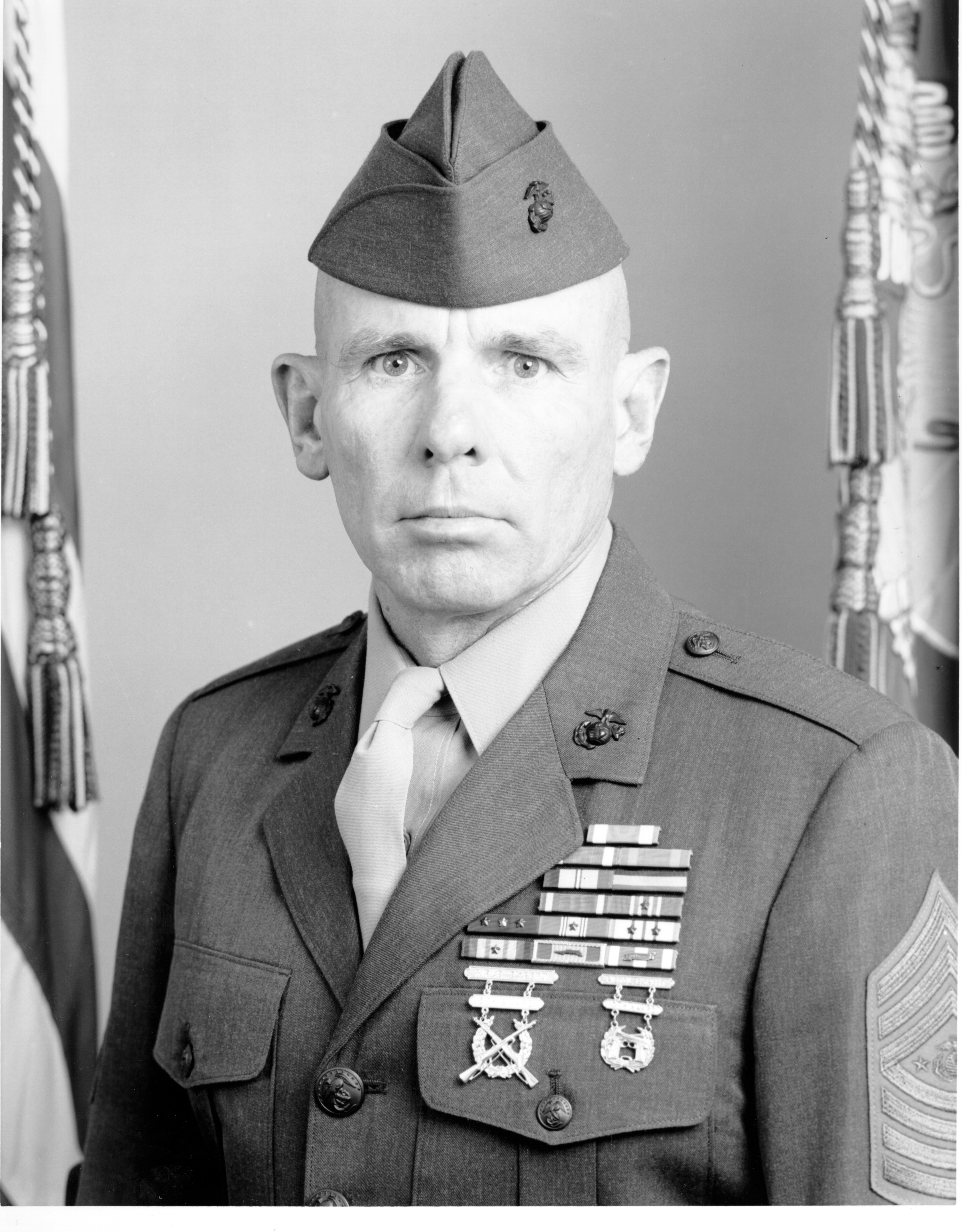 Harold G. Overstreet, USMC retired, 12th Sergeant Major of the Marine Corps; image is official Marine Corps portrait.